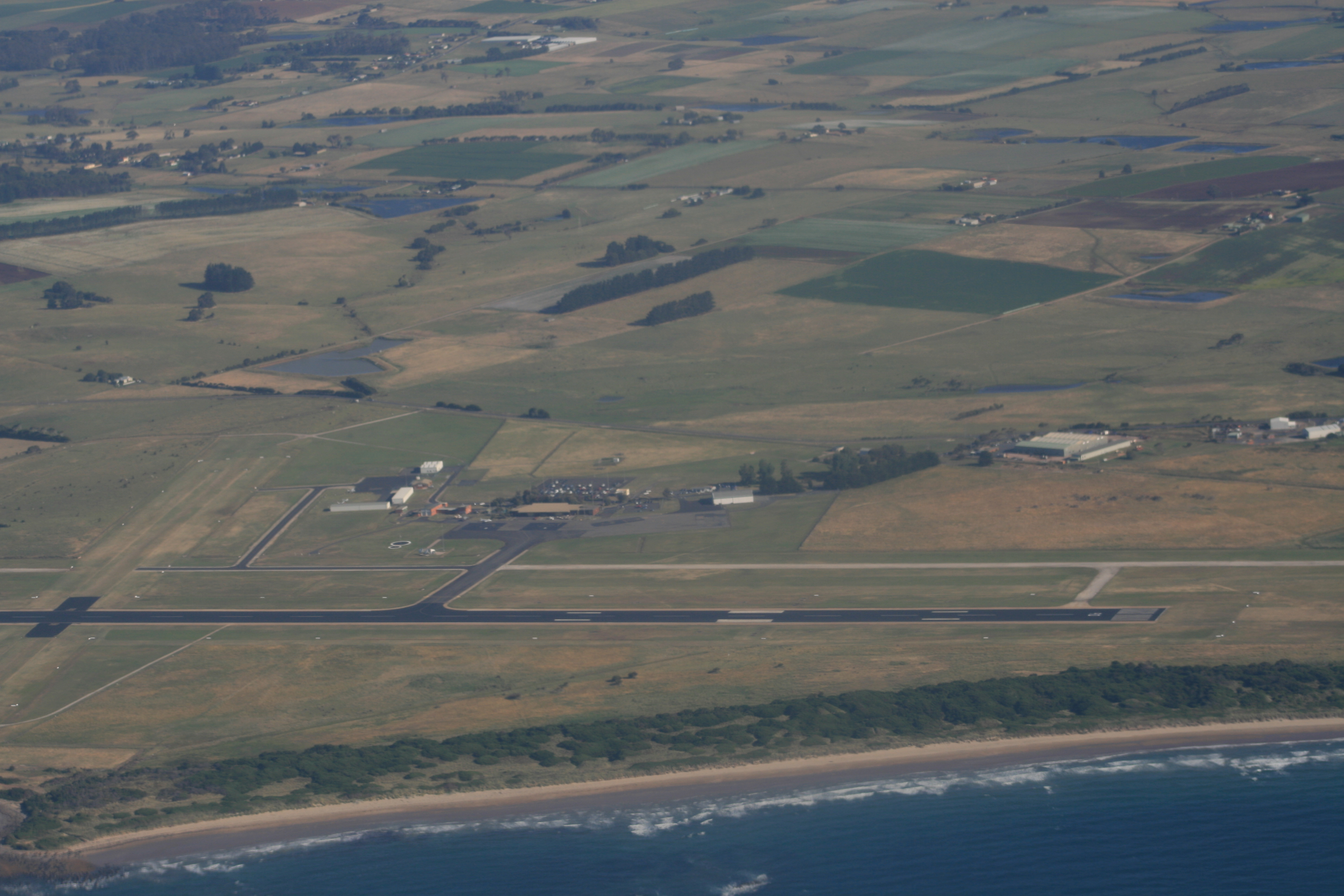 Devonport Airport in Tasmania from the air, looking roughly South-southeast. Digital image taken by YSSYguy on 21 December 2009 and uploaded for use in the Devonport Airport article. YSSYguy (talk) 08:37, 20 February 2014 (UTC)